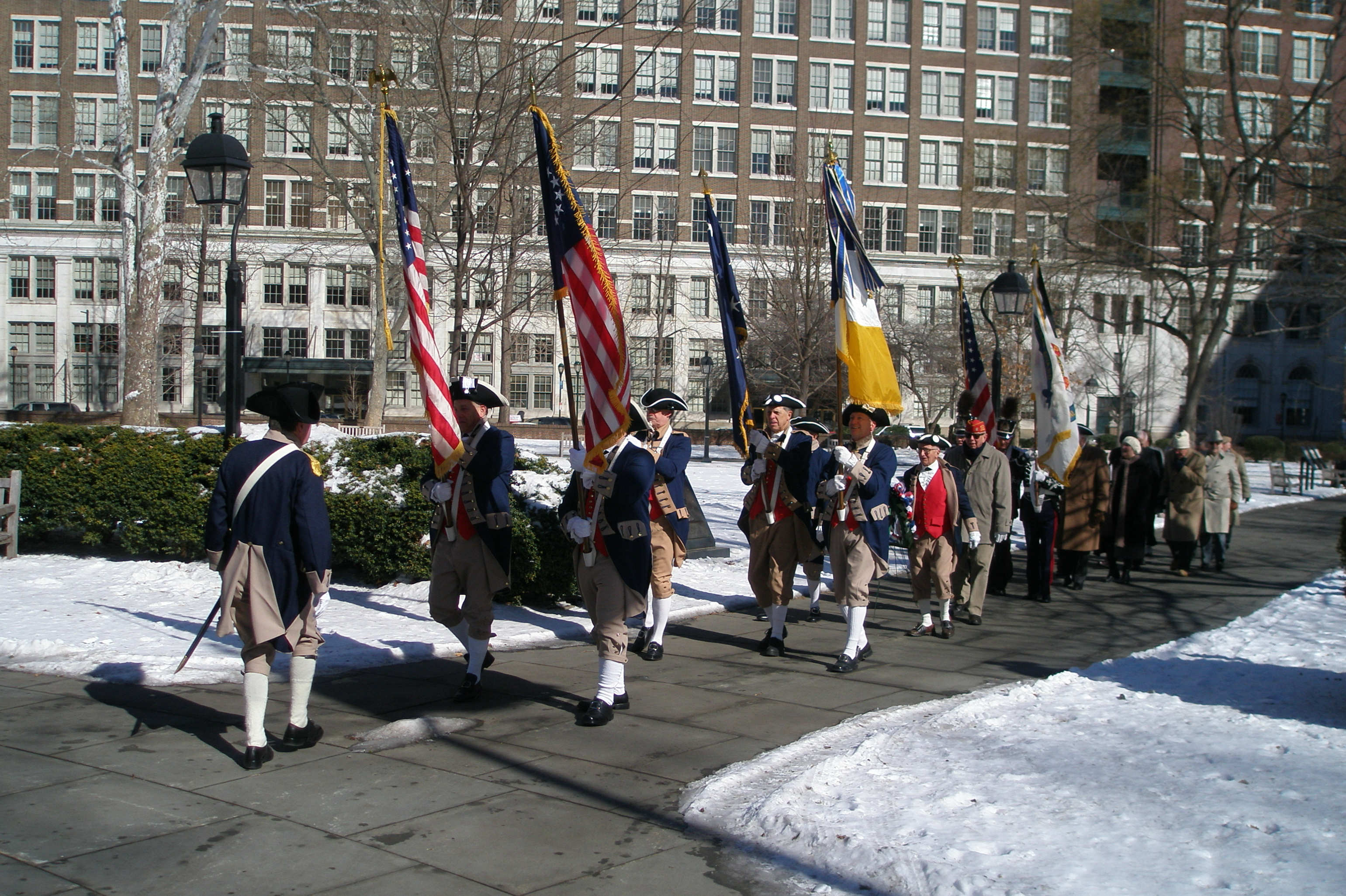 Philadelphia Continental Chapter of the Sons of the American Revolution (SAR) at a ceremony commemorating the birth of George Washington at the Tomb of the Unknown Revolutionary War Soldier in Washington Square, Philadelphia